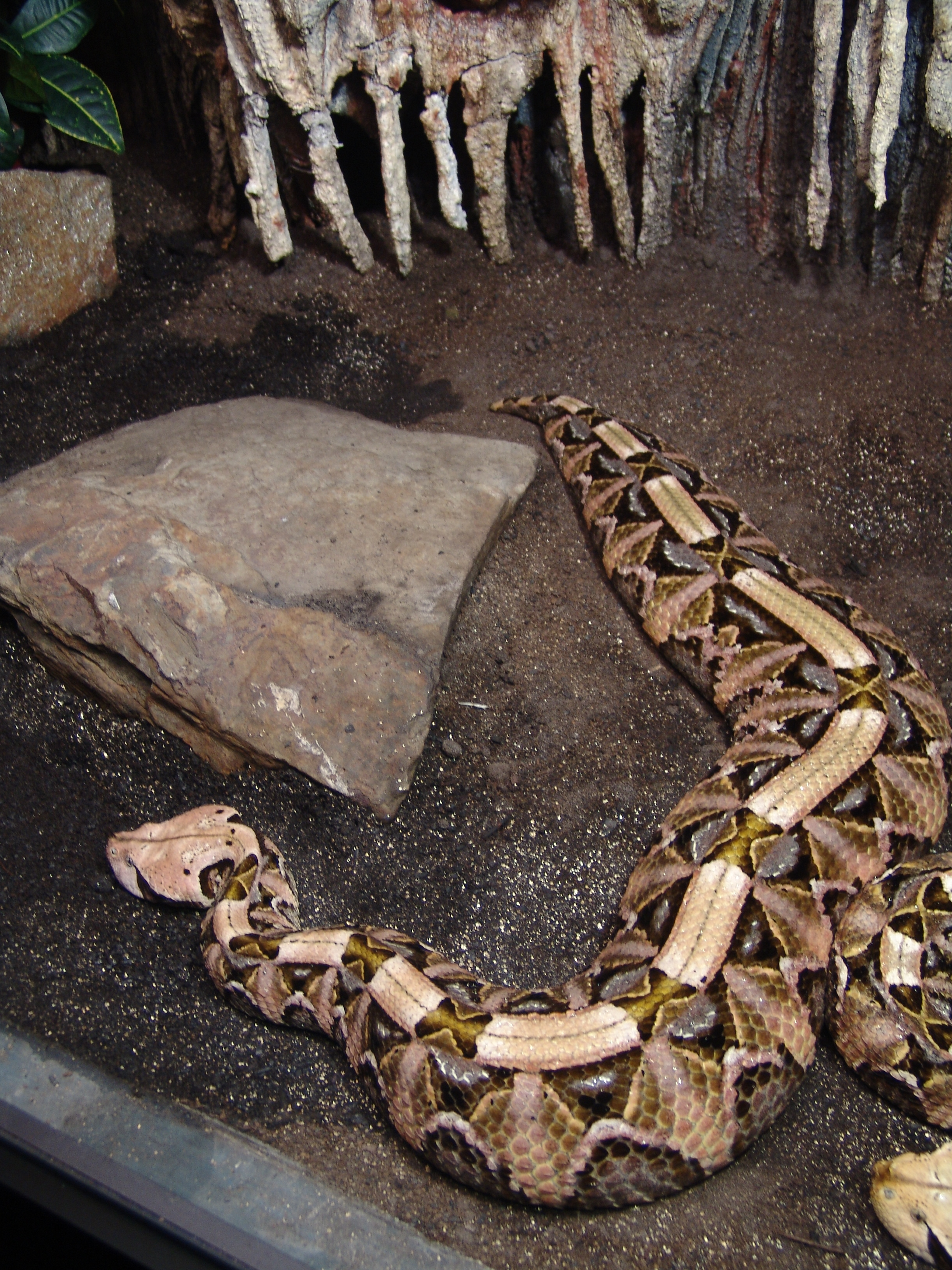 Gaboon Viper at Wilmington's Serpentarium. I took the picture.